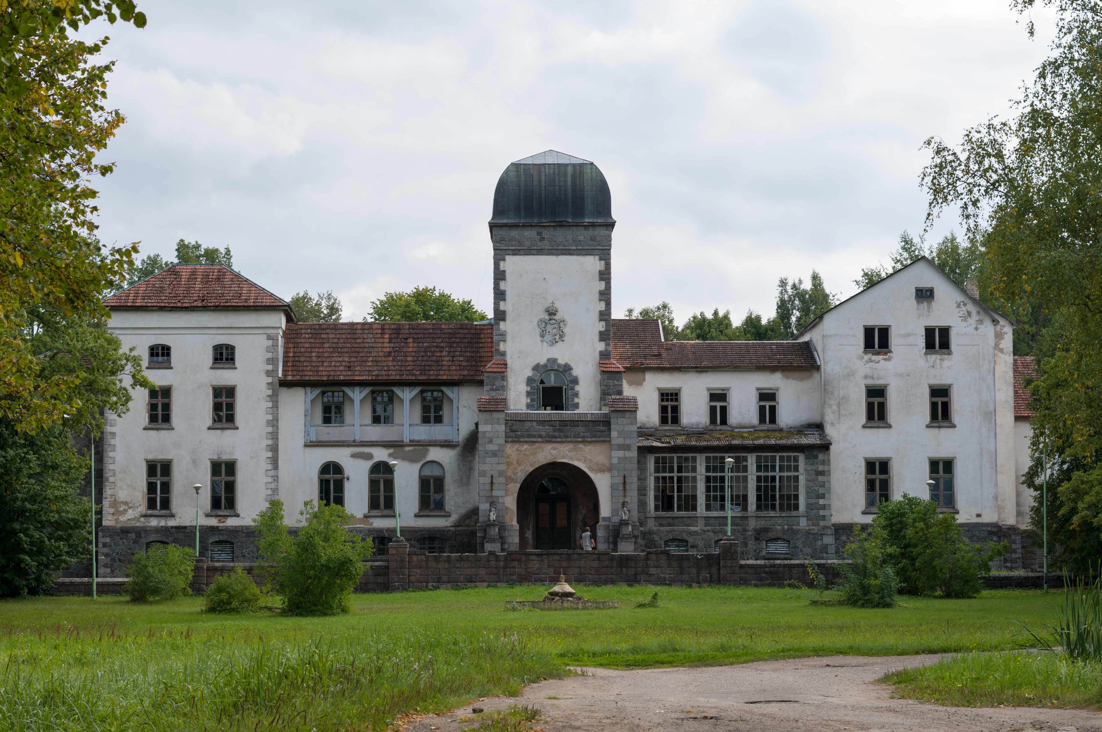 This photo was taken during a Wikiexpedition set up by Wikimedia Eesti.You can see all photographs in category WMEE-LV2013.